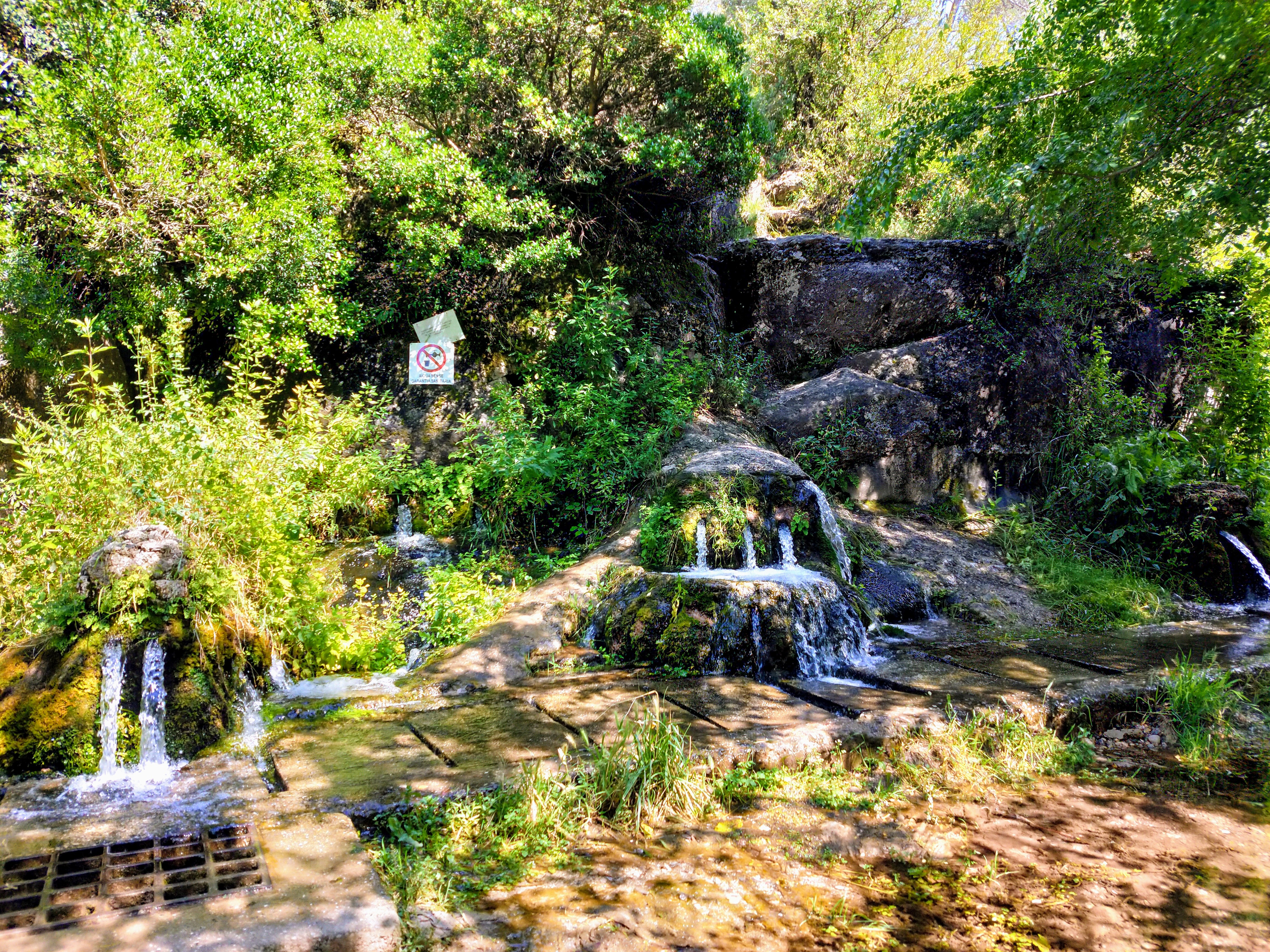 Vista general